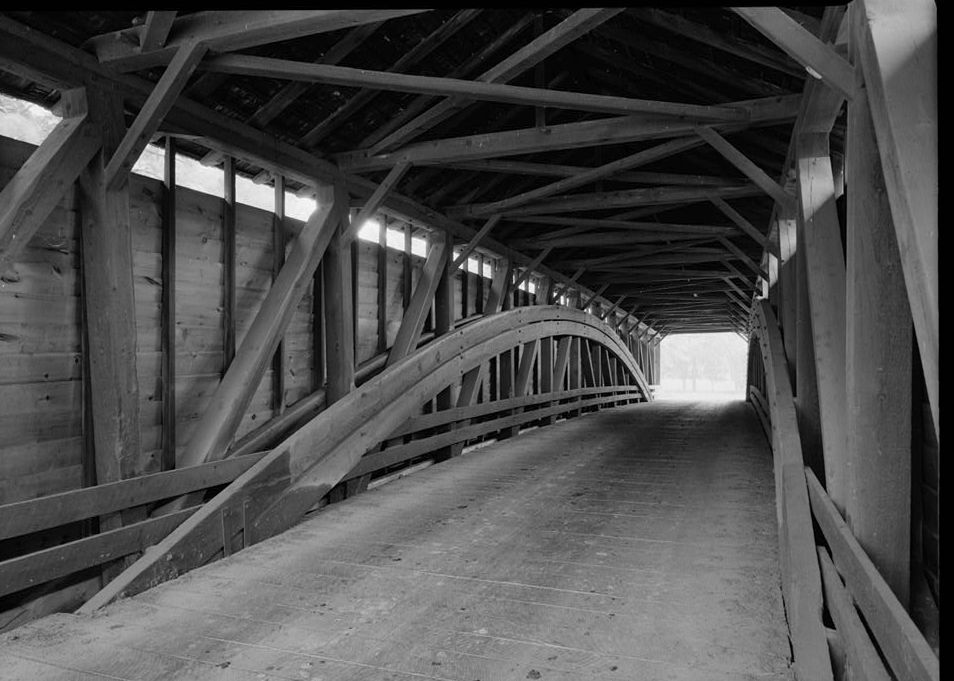 Griesemer Mill Covered Bridge, 3.5 miles north of State Route 562, spanning Manat, Yellow House vicinity (Berks County, Pennsylvania) cropped This file comes from the Historic American Buildings Survey (HABS), Historic American Engineering Record (HAER) or Historic American Landscapes Survey (HALS). These are programs of the National Park Service established for the purpose of documenting historic places. Records consist of measured drawings, archival photographs, and written reports. When reusing please credit: Library of Congress, Prints & Photographs Division, PA,6-YEL.V,2-2 This tag does not indicate the copyright status of the attached work. A normal copyright tag is still required. See Commons:Licensing. This work is in the public domain in the United States because it is a work prepared by an officer or employee of the United States Government as part of that person’s official duties under the terms of Title 17, Chapter 1, Section 105 of the US Code. Note: This only applies to original works of the Federal Government and not to the work of any individual U.S. state, territory, commonwealth, county, municipality, or any other subdivision. This template also does not apply to postage stamp designs published by the United States Postal Service since 1978. (See § 313.6(C)(1) of Compendium of U.S. Copyright Office Practices). It also does not apply to certain US coins; see The US Mint Terms of Use. This file has been identified as being free of known restrictions under copyright law, including all related and neighboring rights. Object location40° 21′ 46″ N, 75° 44′ 18″ W